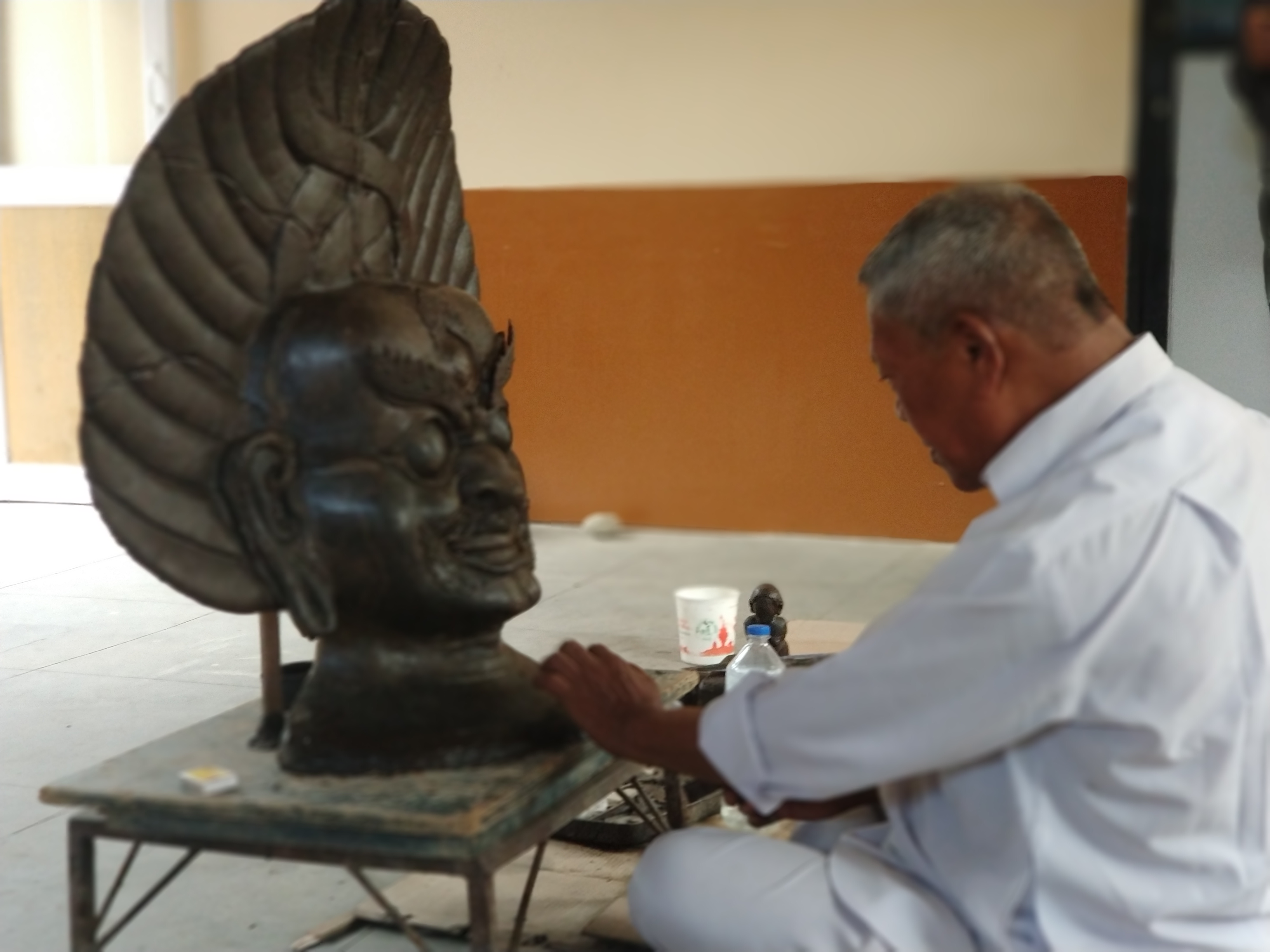 Nepali artiest